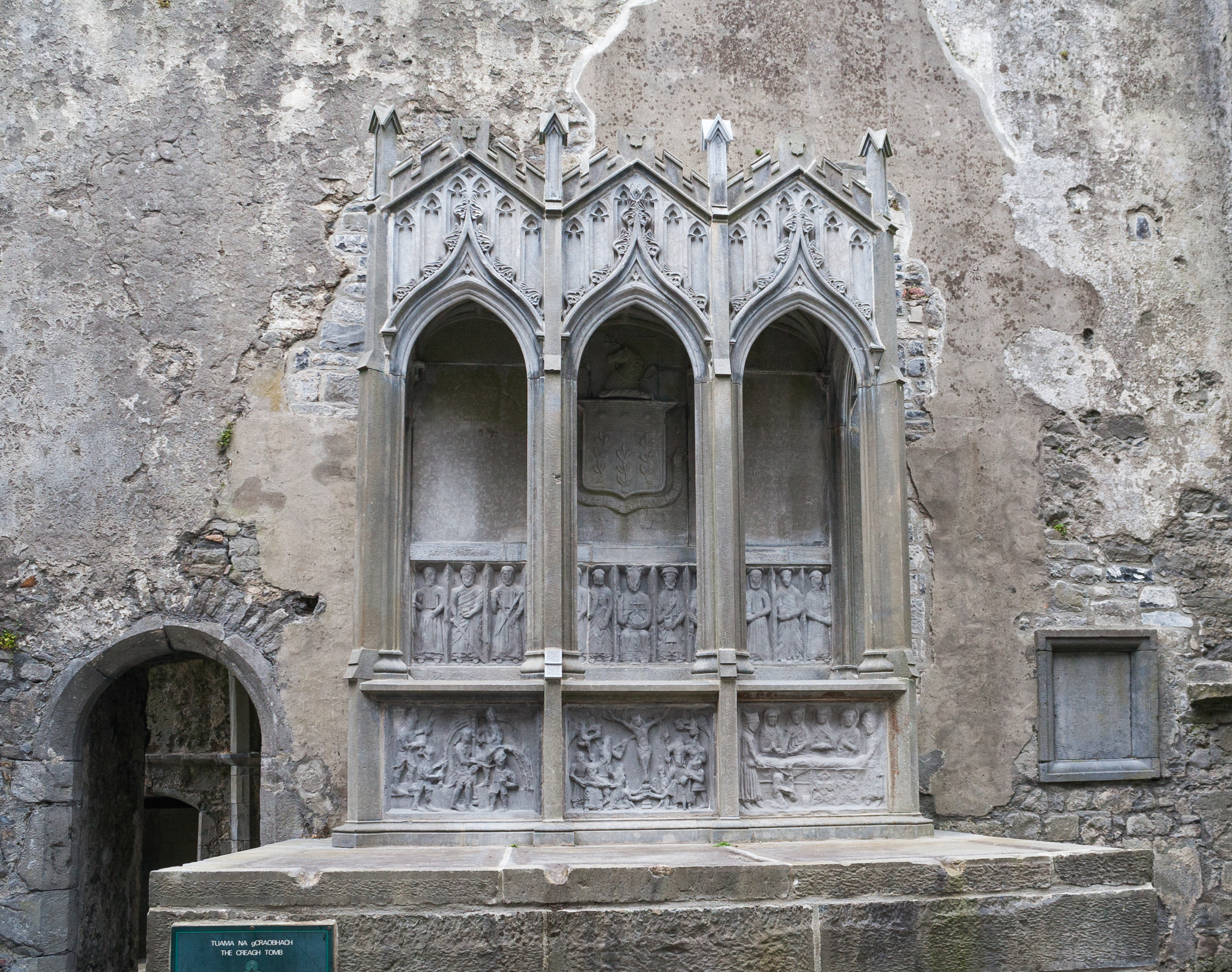 The Creagh tomb at the north wall of the choir. According to a nearby information panel, the tomb was erected by the Creagh family in 1843, using reliefs from older tombs, dating from c. 1470.